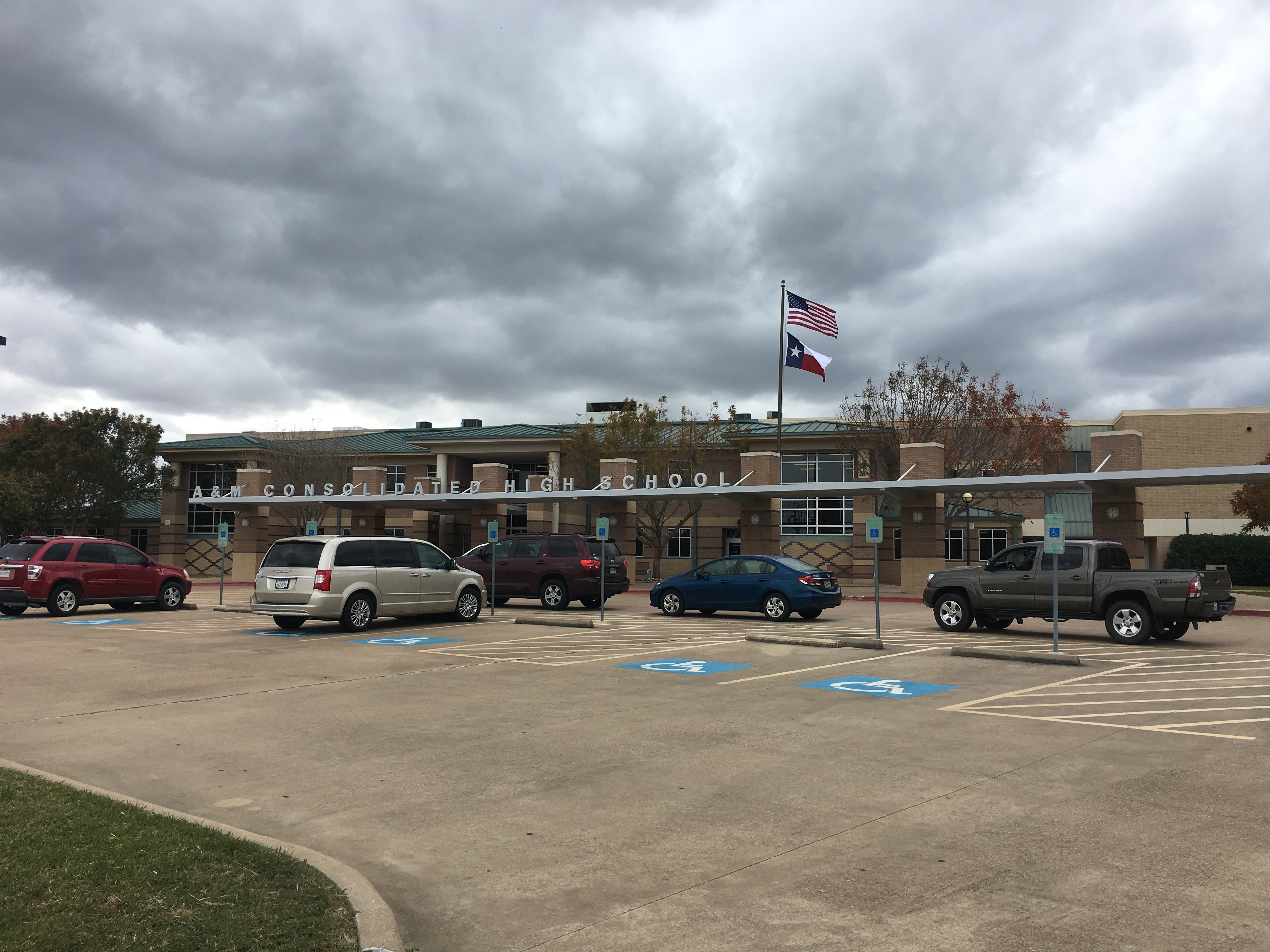 An image of the main entrance of A&M Consolidated High School in College Station, Texas.